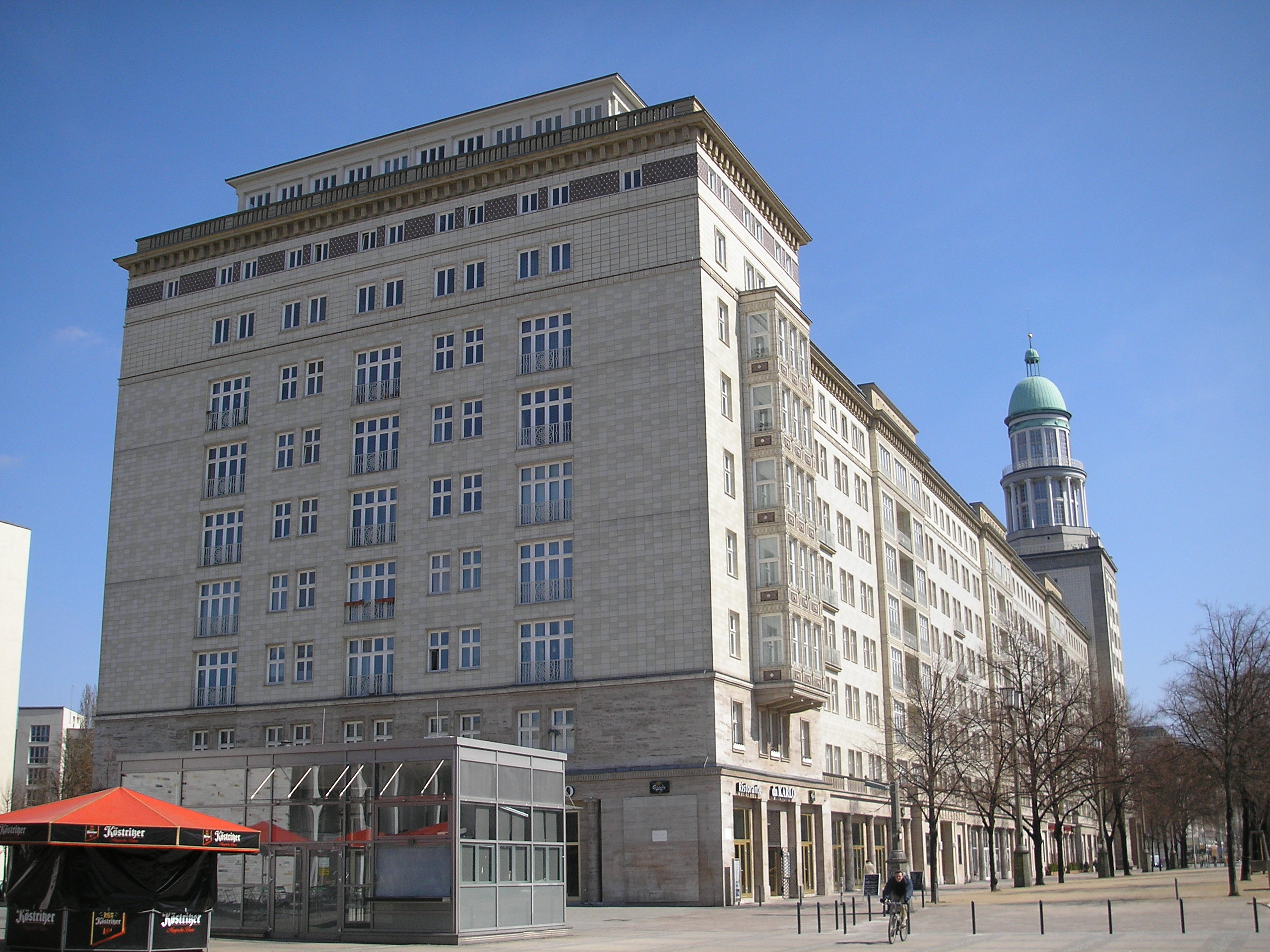 View of Block F Nord on Karl-Marx-Allee in Berlin. Architects Karl Souradny, Heinz Auspurg, Werner Burghardt. Constructed around 1952.